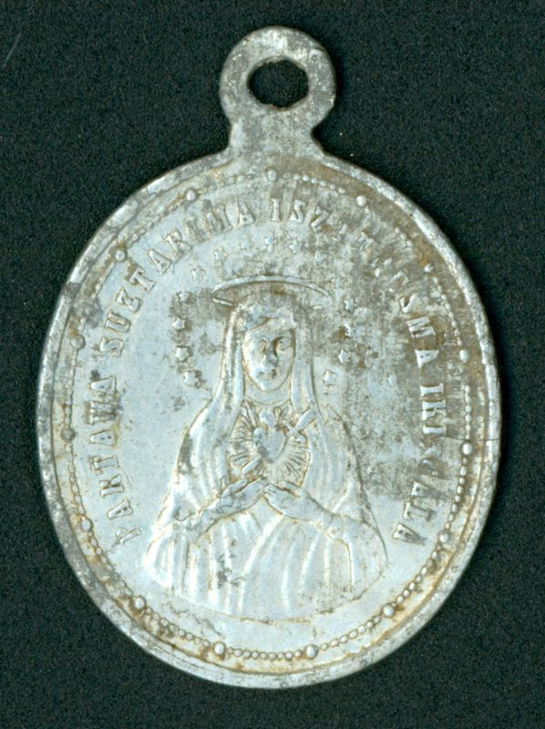 Aluminum devotional medal of Our Lady of Sorrows found in the Cathedral of Varniai. The legend reads: "With your intercession [I] will persist to the end". The reverse depicted a cross with an anchor and a legend that read "For the commemoration of the temperance movement started in 1858". The medal was created in 1858 for people who signed up for the temperance movement spearheaded by bishop Motiejus Valančius. The first medals were made of bronze or brass. Aluminum medals first appeared in 1889.